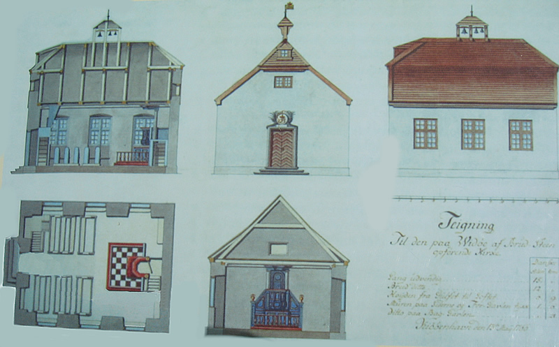 Drawing of the church in island Viðey, Reykjavik, Iceland build in 1755. First house made of stone in Iceland.Built 1767-74